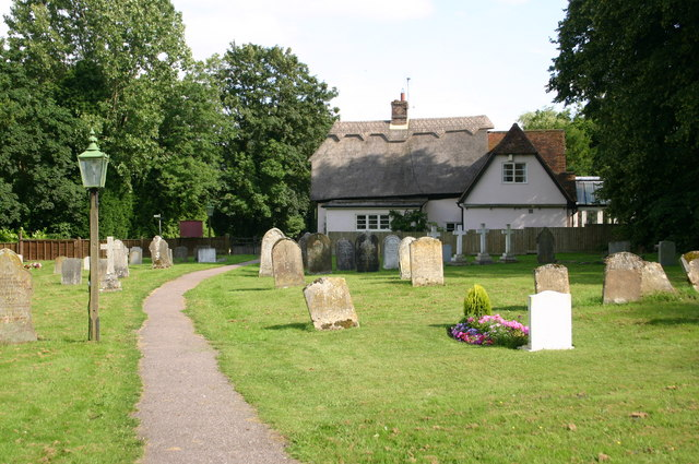 Wilden churchyard, near to Wilden, Bedfordshire, Great Britain. Wilden churchyard path leads to the Victoria Arms pub